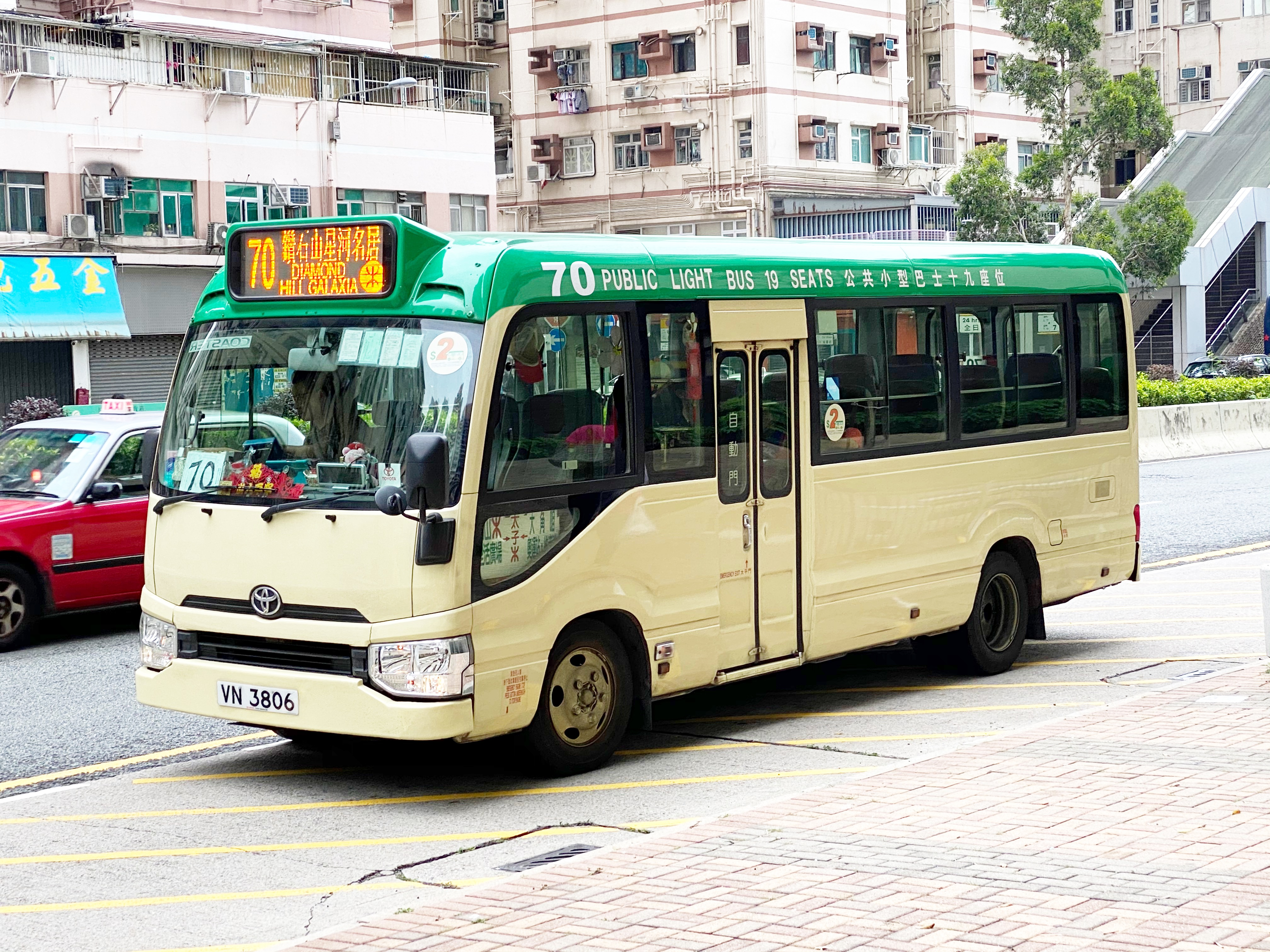 中文（香港）: This photo is taken in Sham Mong Road.